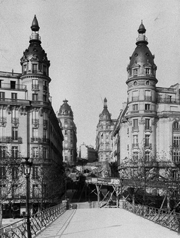 Construction of the metro station "Passy" from the bridge of Bir-Hakeim on the future metro line 6, Paris 16th arr.